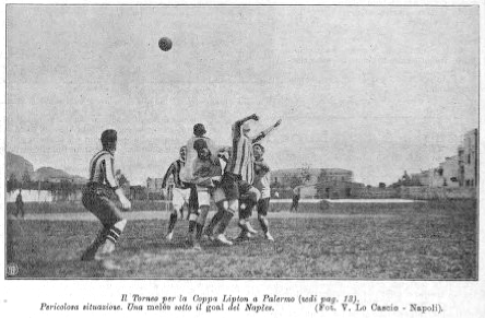 The 1910 Lipton Cup Final.